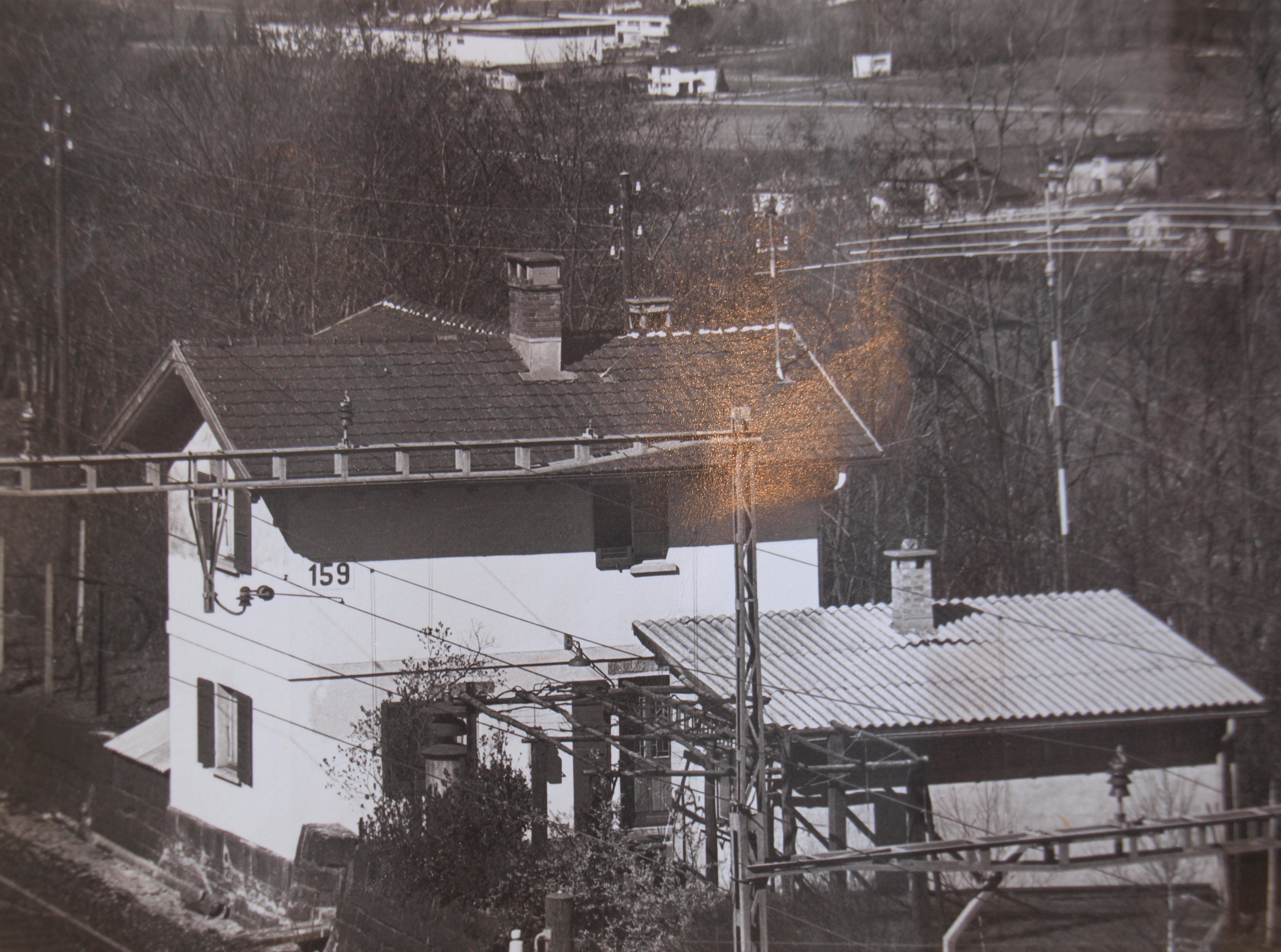 Watchman's house number 159 at Mount Ceneri Swiss Railways (1976)